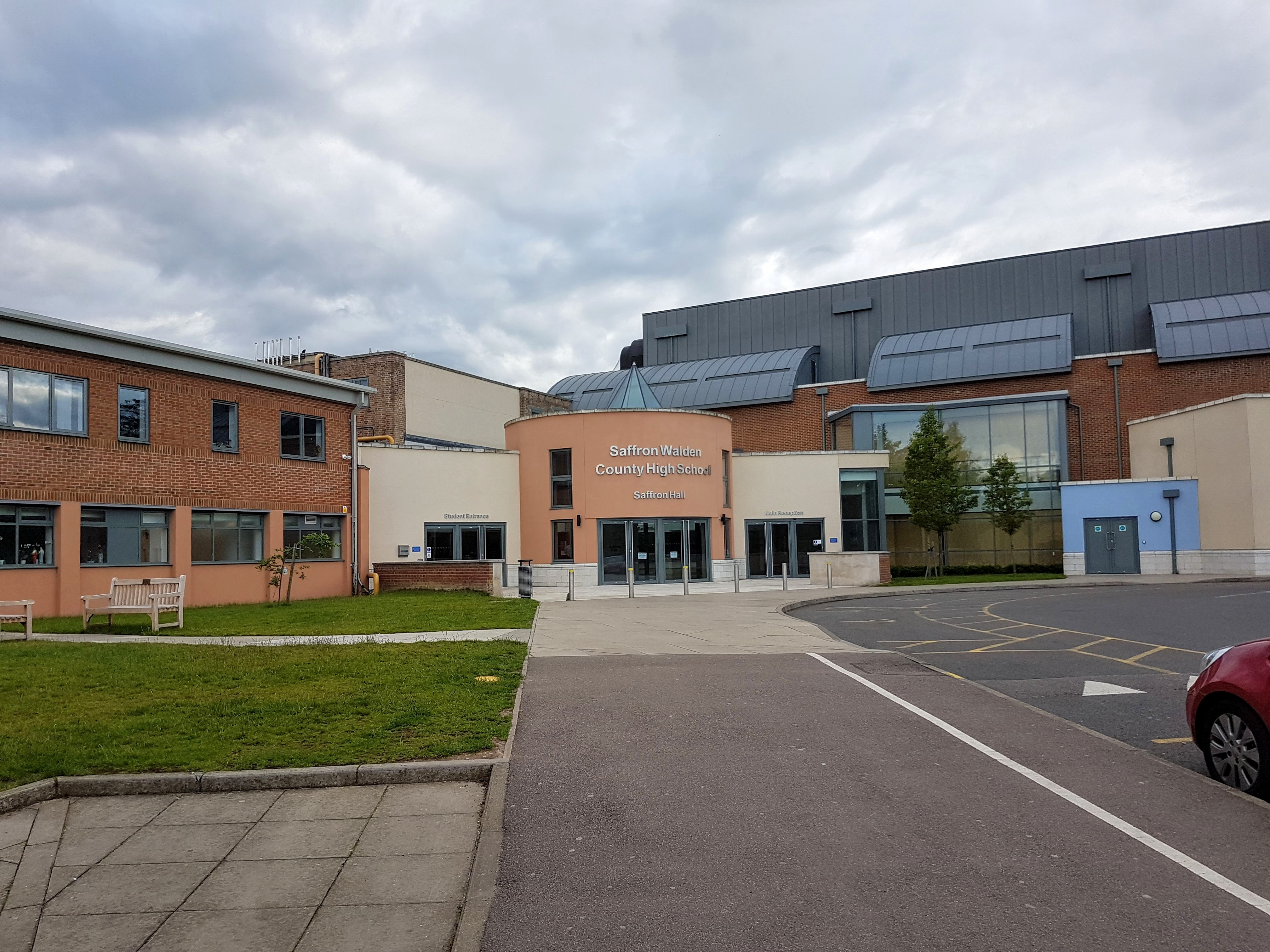 The entrance to the reception area of Saffron Walden County High School, Essex, England and the associated Sixth Form. This also serves as the entrance to Saffron Hall. Part of the school's corridor D is visible to the left.